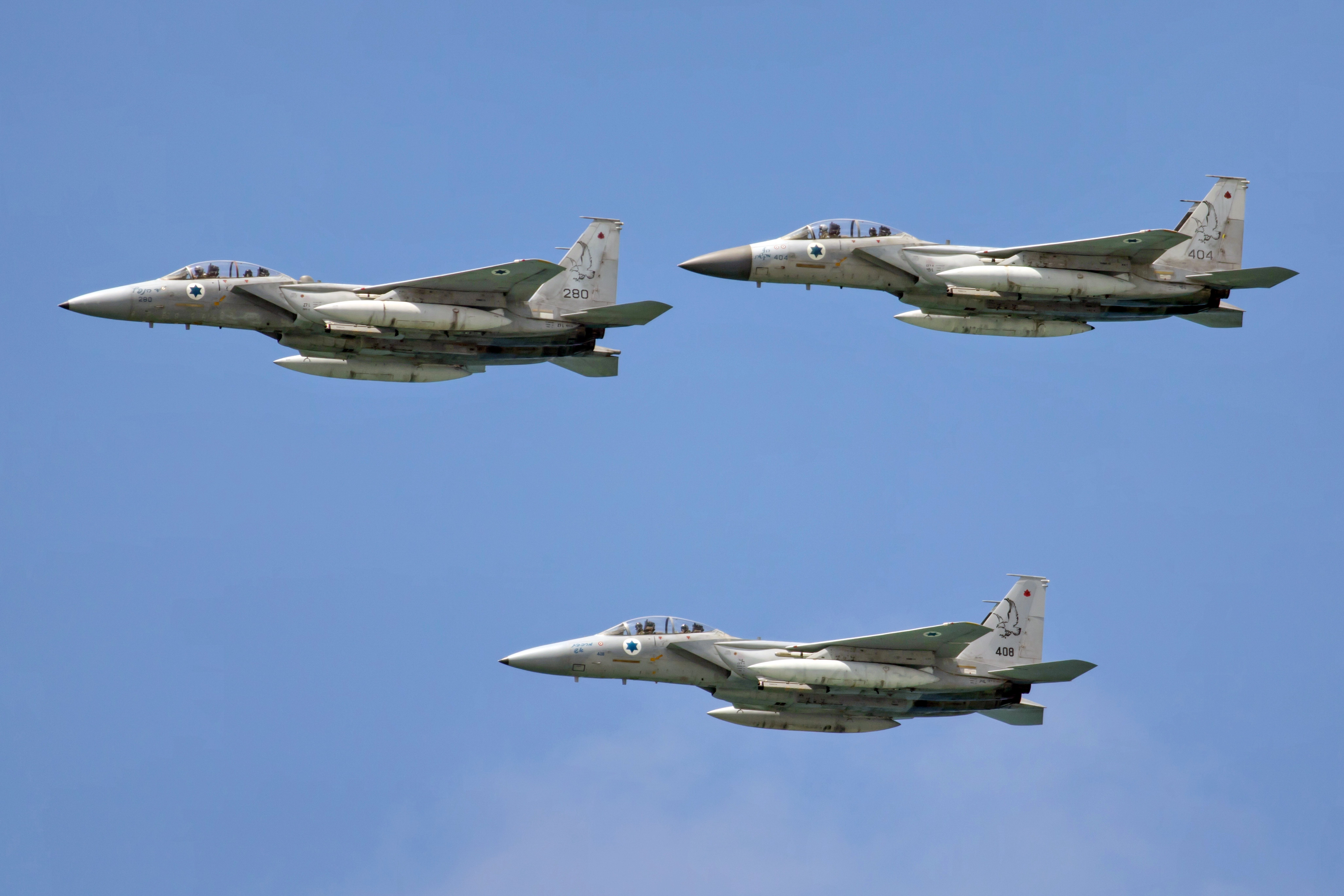 F-15 IAF Israel 2015 Independence Day flyover (kill marking on all Airplanes)